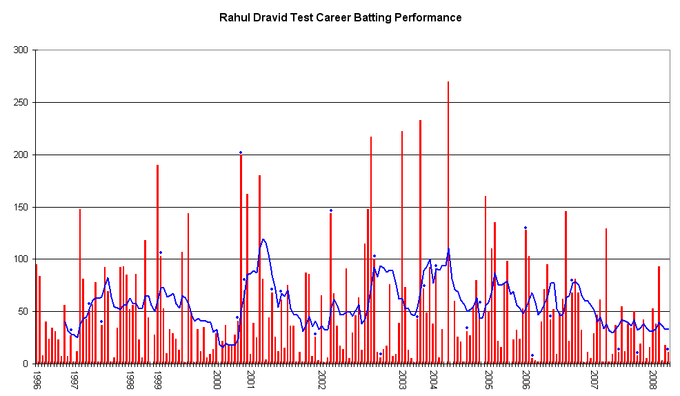 This graph details the Test Match performance of Rahul Dravid. The red bars indicate the player's test match innings, while the blue line shows the average of the ten most recent innings at that point. Note that this average cannot be calculated for the first nine innings. The blue dots indicate innings in which Dravid finished not-out. This graph was generated with Microsoft Excel 2002, using data from Cricinfo [1] and Howstat [2]. The information in this chart is current as of 2 February, 2008.